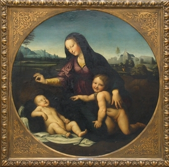 Madonna with Christ and small St.John attributed to Raphael, National Museum of Serbia ,Belgrade